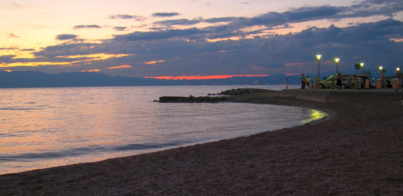 One evening in August, while walking on the promenade of Njivice, Island of Krk, Croatia.